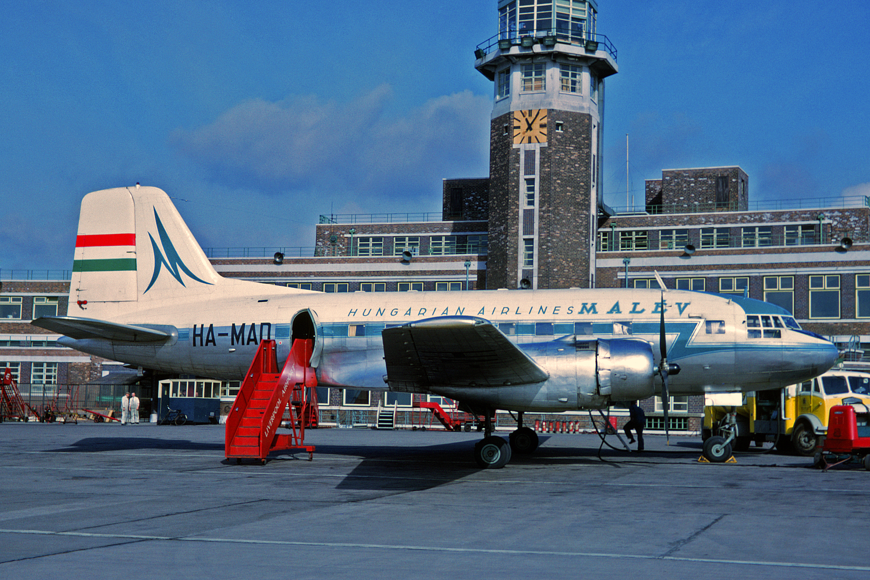 Malev Ilyushin Il-14 at Liverpool Airport.